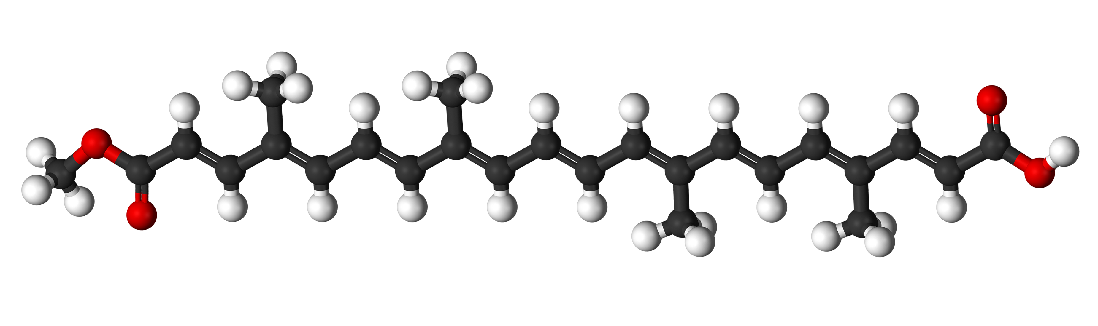 Ball-and-stick model of the trans-bixin molecule.